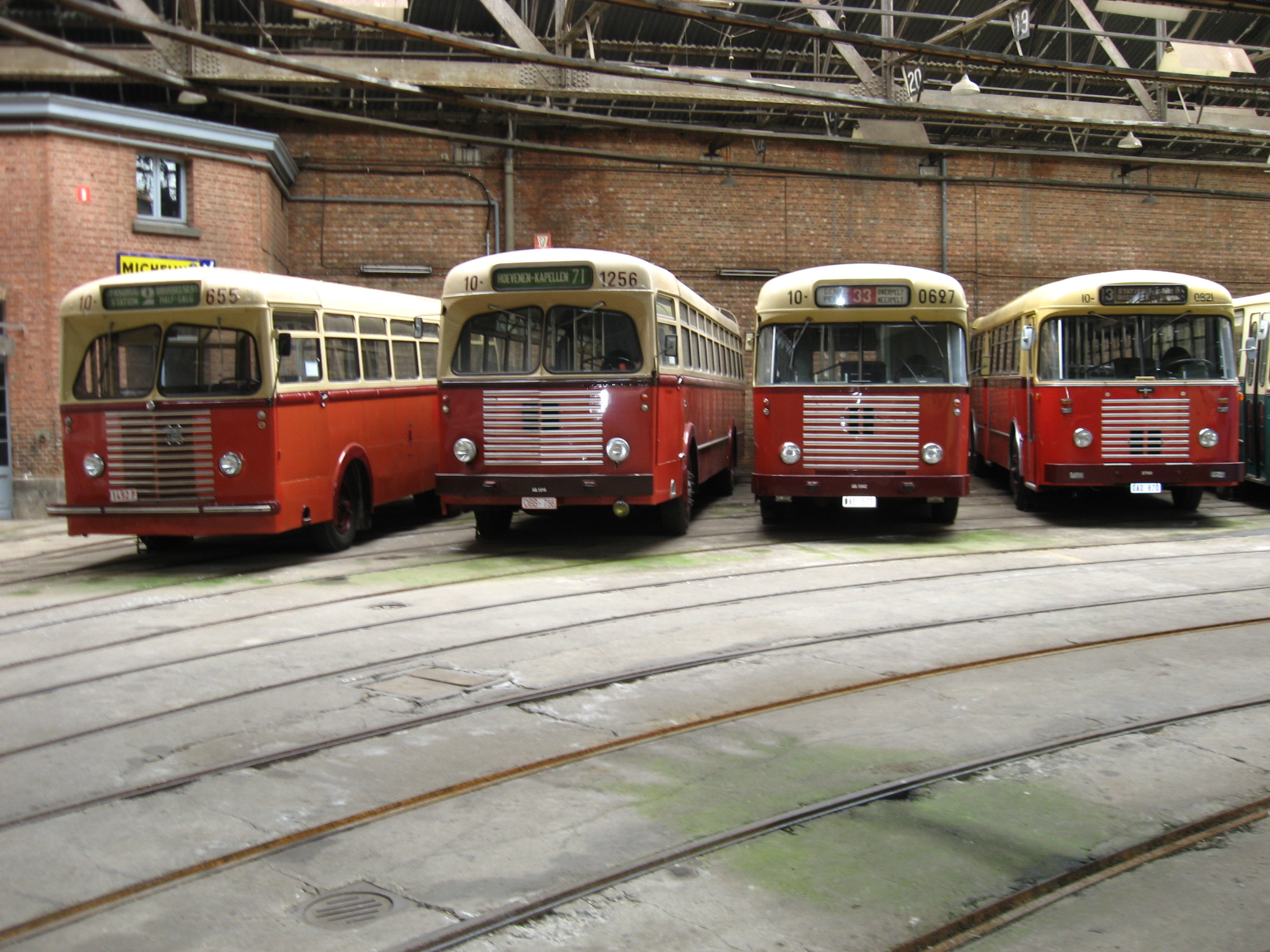 SNCV busses from the beginning of 1950's in the museum.